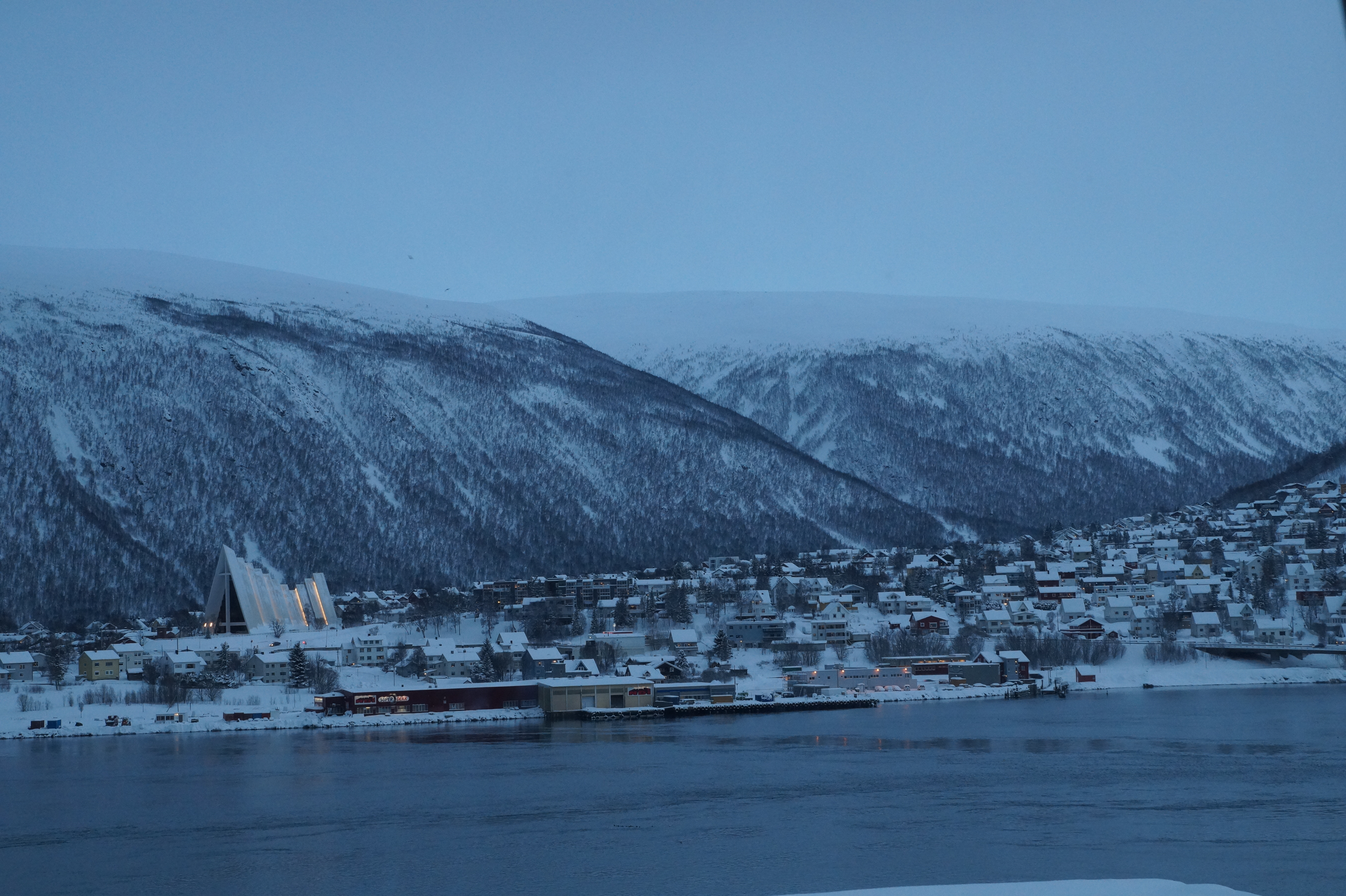 View of Tromsdalen from Radisson Blu hotel in Winter around noon time.